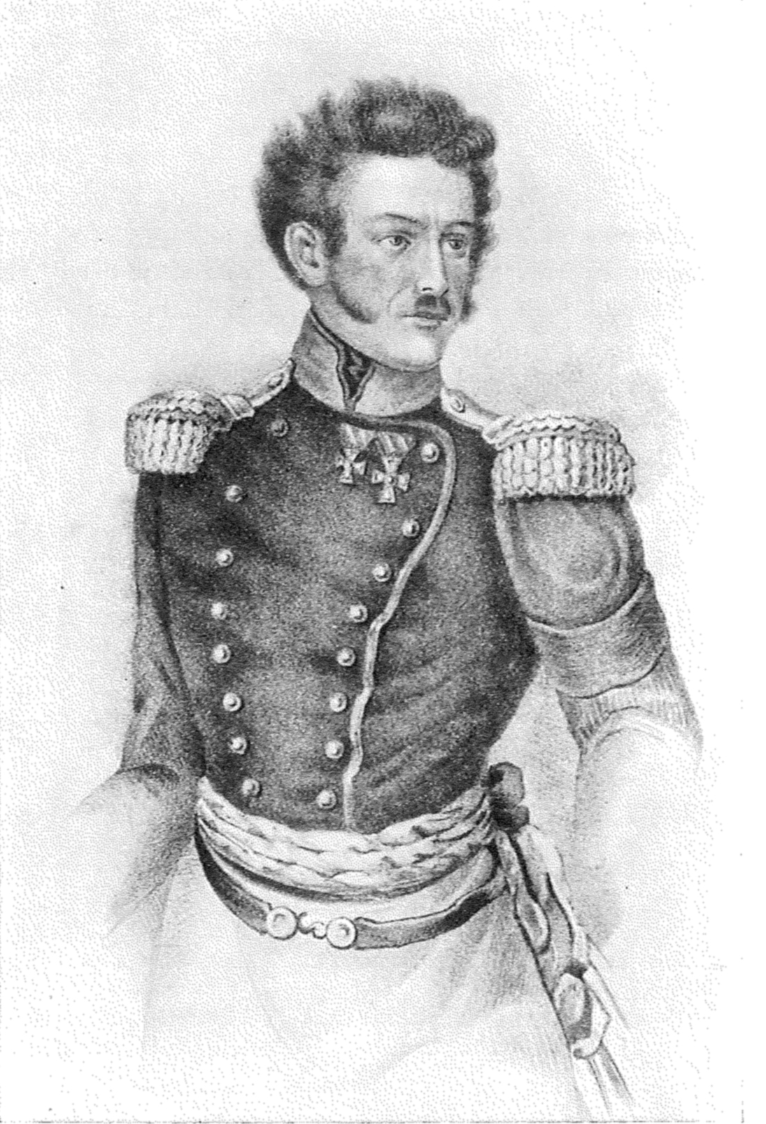 General Johann-Ulrich von Salis-Soglio (1790-1874), he was the commander of the Catholic Sonderbund cantons (1847), although he himself were a Protestant. Engraving, 19th century